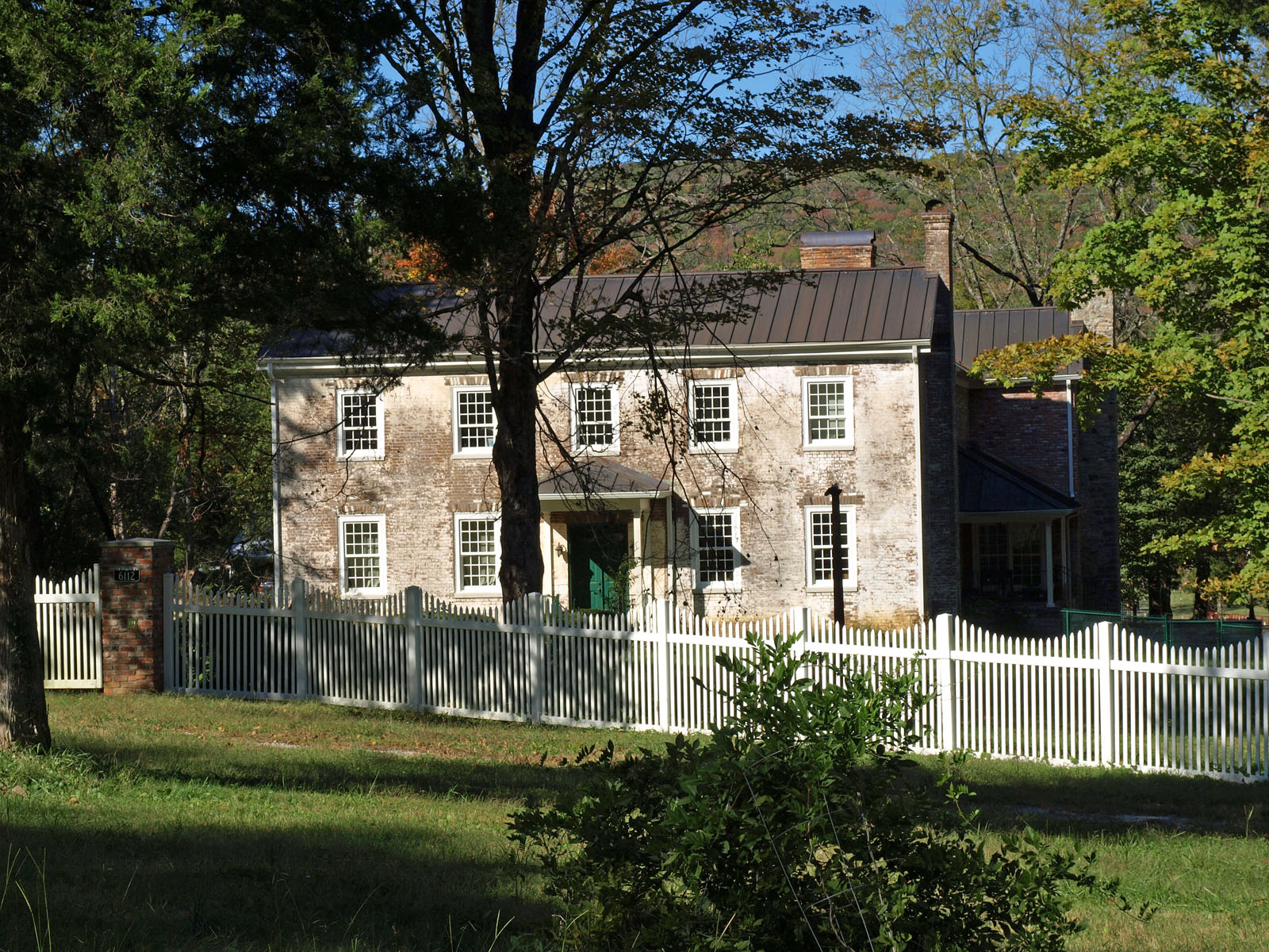 The Phelps-Jones House in Huntsville, Alabama, listed on the National Register of Historic Places.